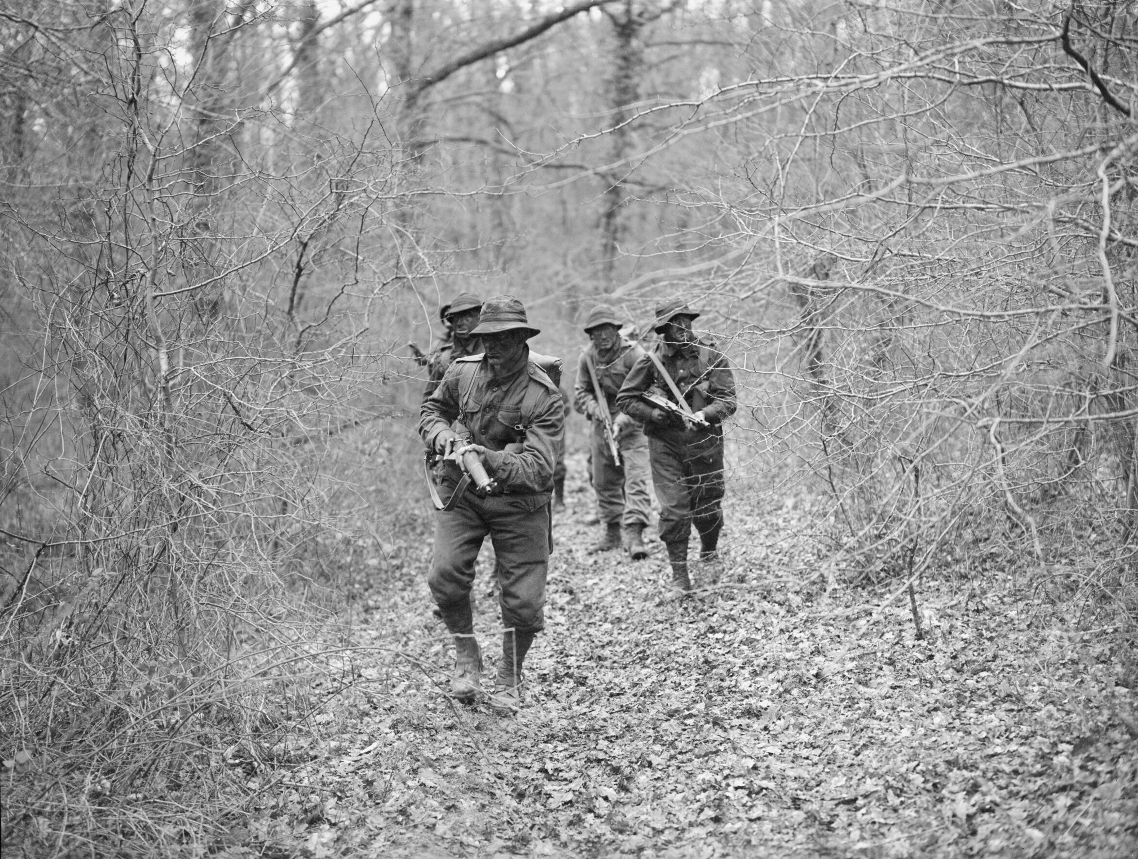 Trainees learn jungle tactics for the Pacific War at the Royal Marines Eastern Warfare School at Brockenhurst, Hampshire, 2 February 1945. Trainees, their faces painted with camouflage paint, on patrol in a wooded area at the Royal Marines Eastern Warfare School. These men are learning to give themselves all-round protection when forced to keep to a narrow track in the "English jungle" at the Eastern Warfare School at Brockenhurst, Hampshire where they learn jungle tactics for the Pacific War.